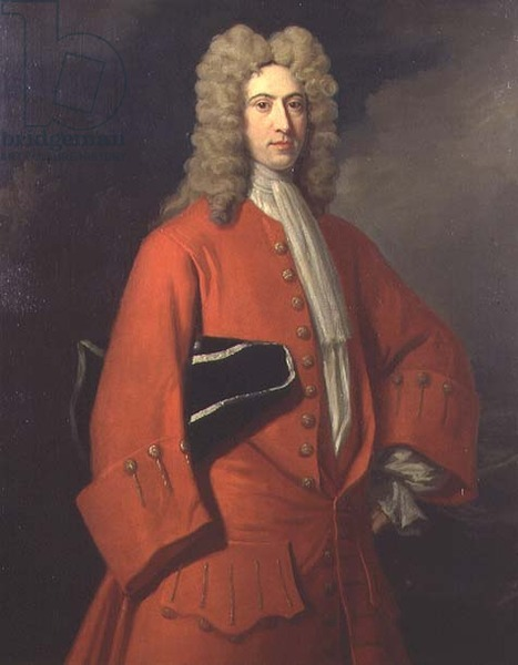 Captain Galfridus Walpole (c.1683-1726) who lost his right arm in a naval battle against the French navy at Vado Bay in 1711; younger brother of Sir Robert Walpole (1676-1745)